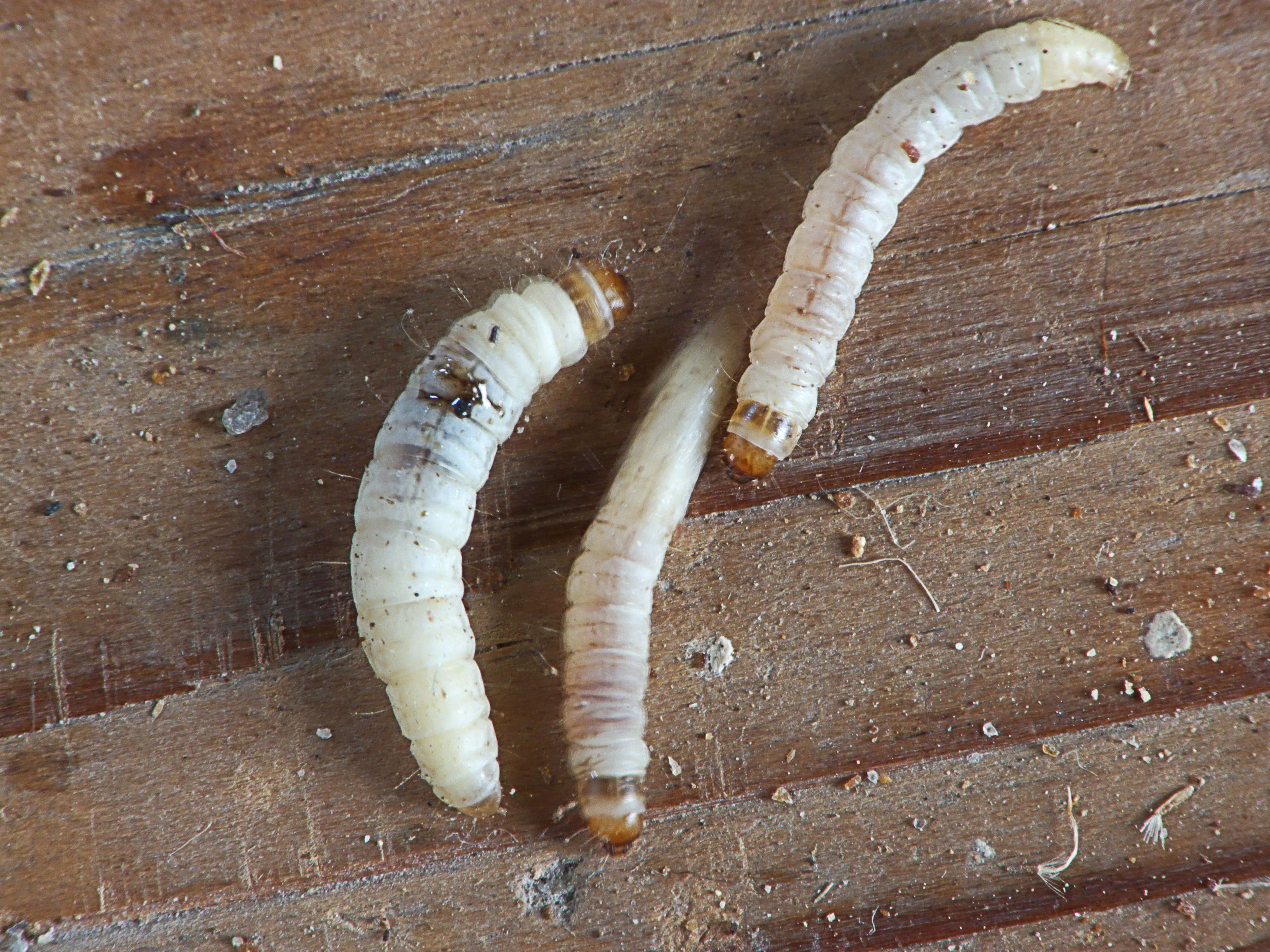 Achroia grisella caterpillars, length 13-16 mm.